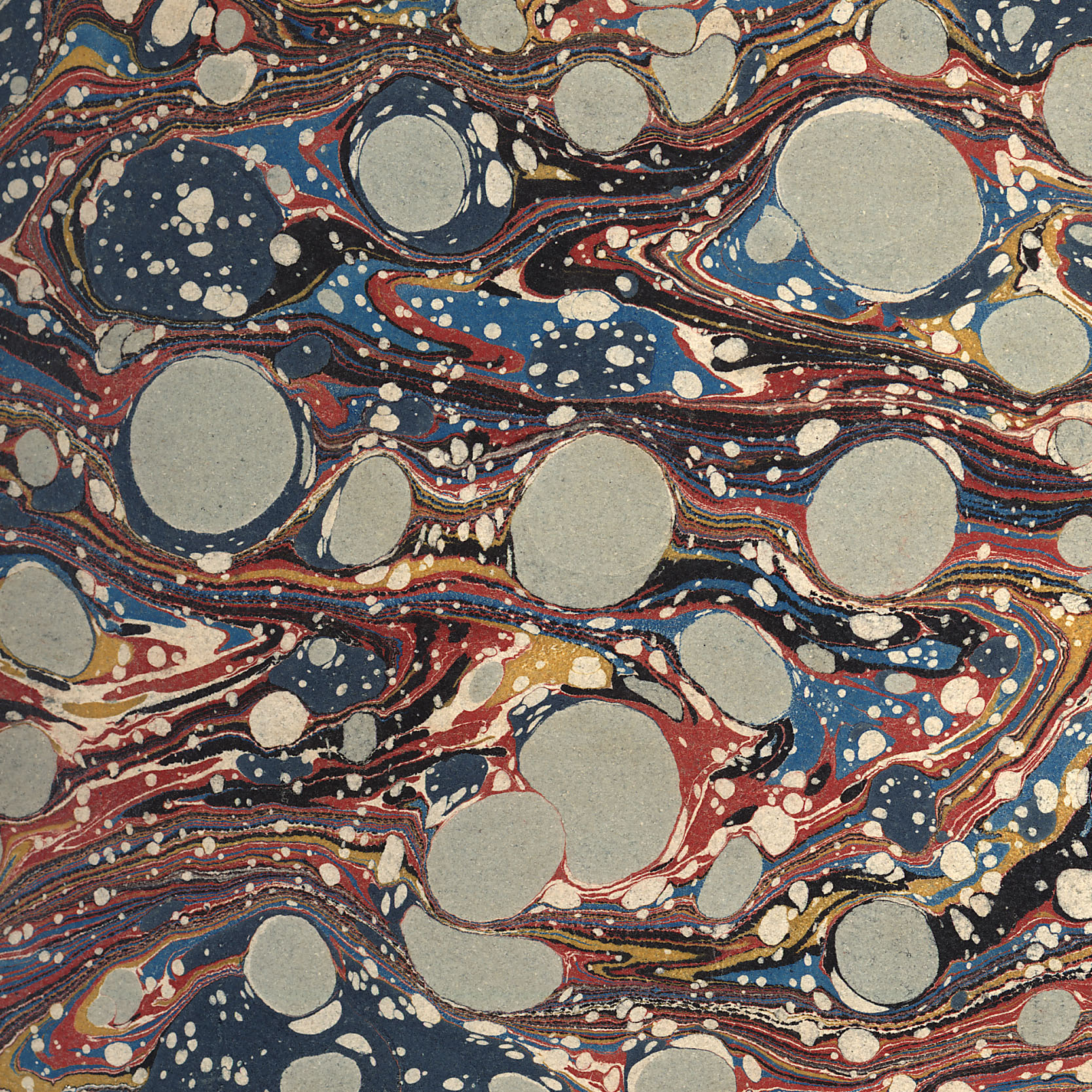 Handcrafted paper marbling (detail) from endpapers (identical with cover) of a book manually bound in England around 1830.